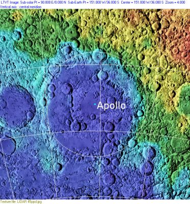 Clementine LIDAR Altimeter texture from PDS Map-a-Planet remapped to north-up aerial view by LTVT.